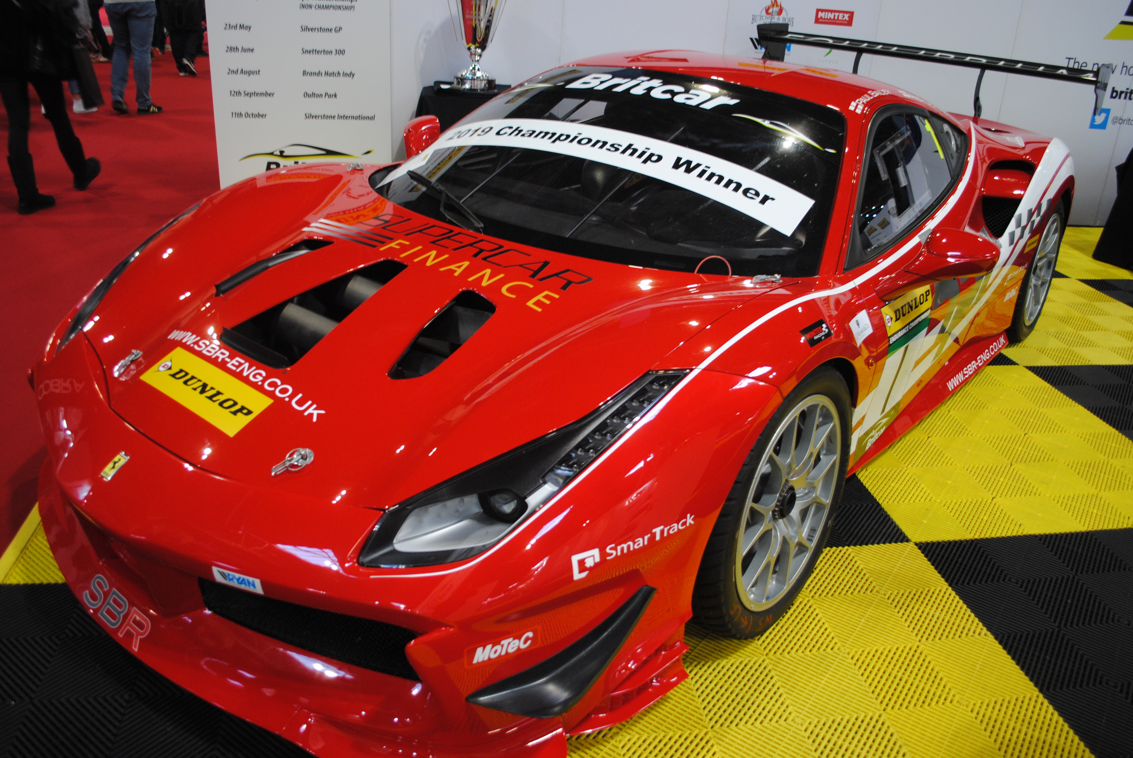 The car that won the 2019 Britcar Endurance Championship, SB Race Engineering's Ferrari 488 Challenge, driven by Paul Bailey and Andy Schultz